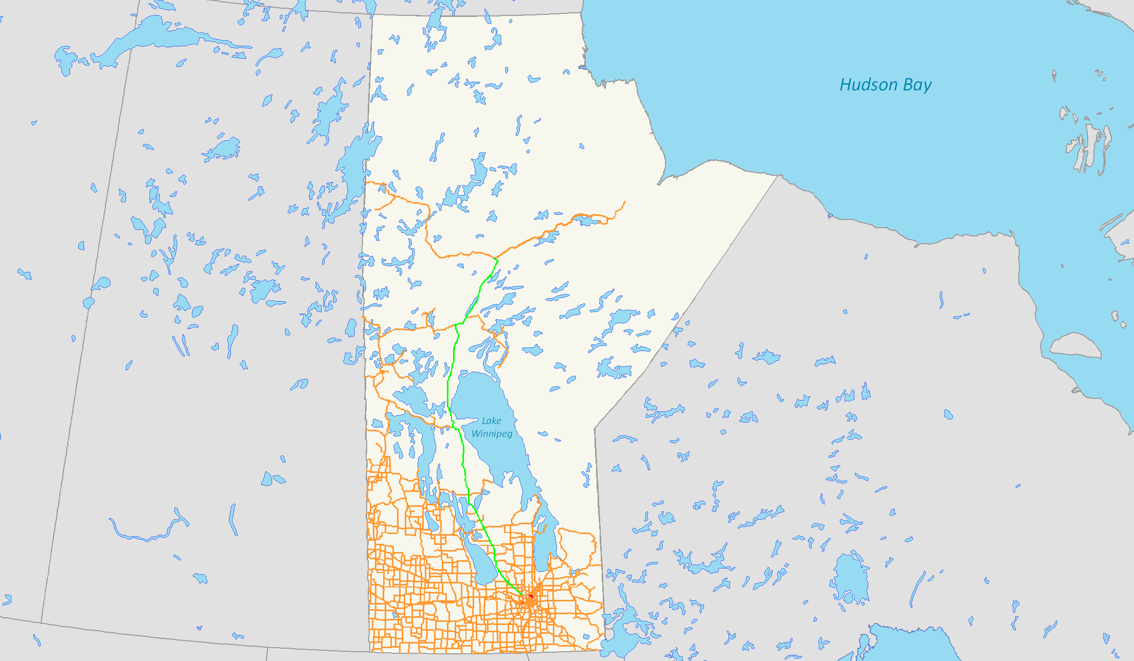 Map of Manitoba Provincial Hwy 6.